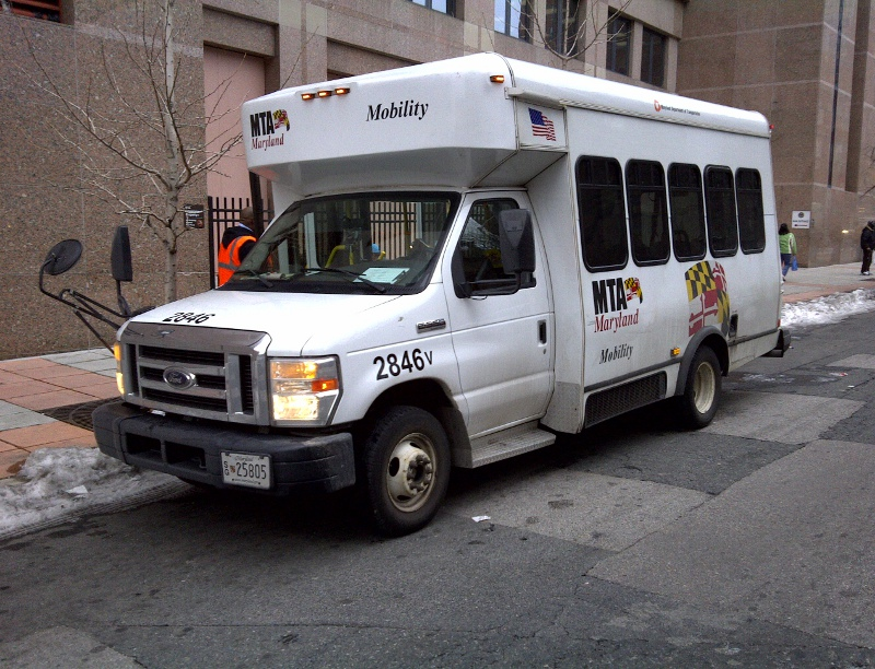 MTA Maryland Mobility Bus Ford E Series #2846.